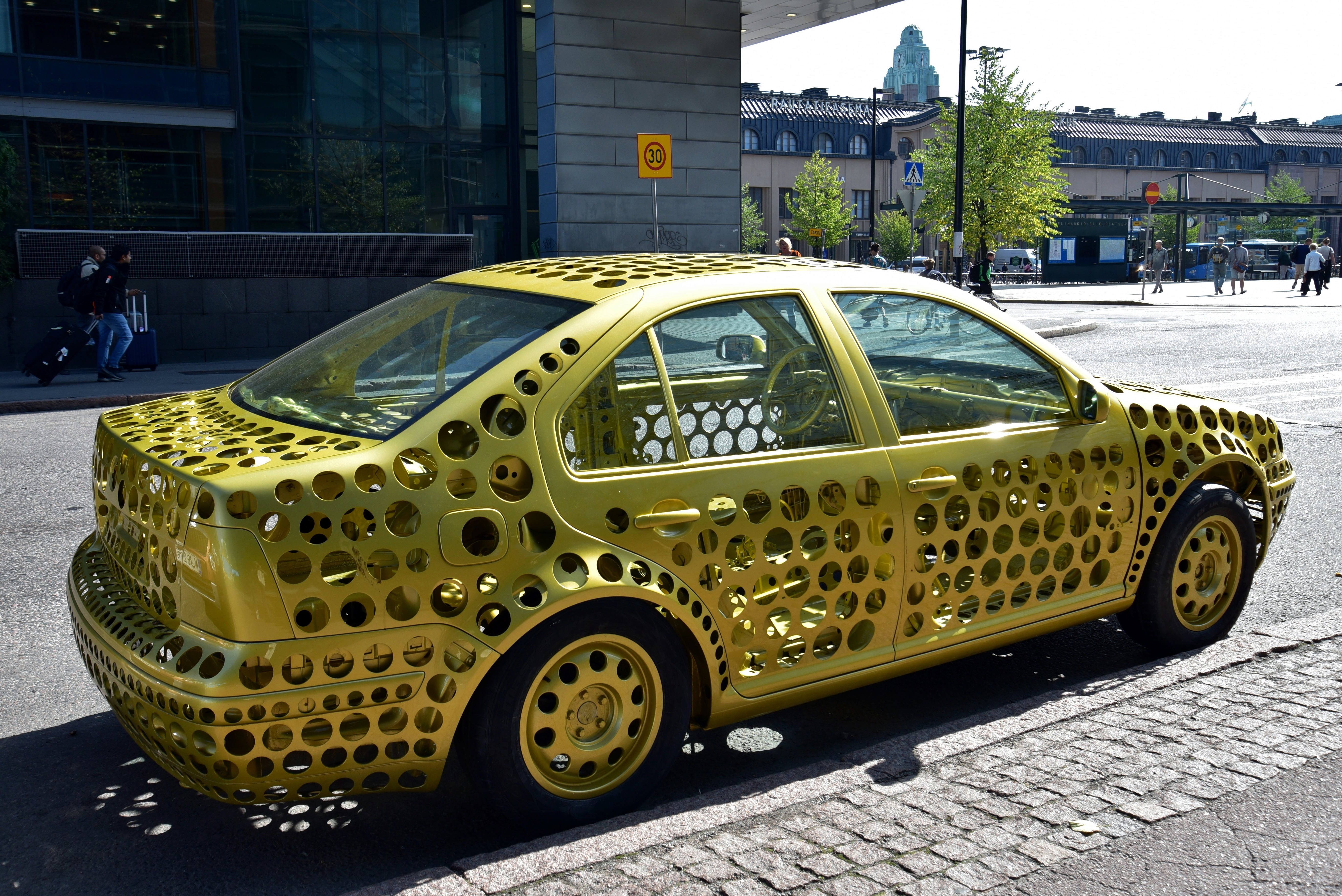 Autokulta, a VW Bora modified and repainted to resemble a giant block of swiss cheese, parked in Töölönlahdenkatu, Kluuvi, Helsinki